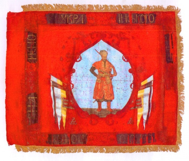 Flag of Ukrainian Zaporozhian Regiment (obverse)